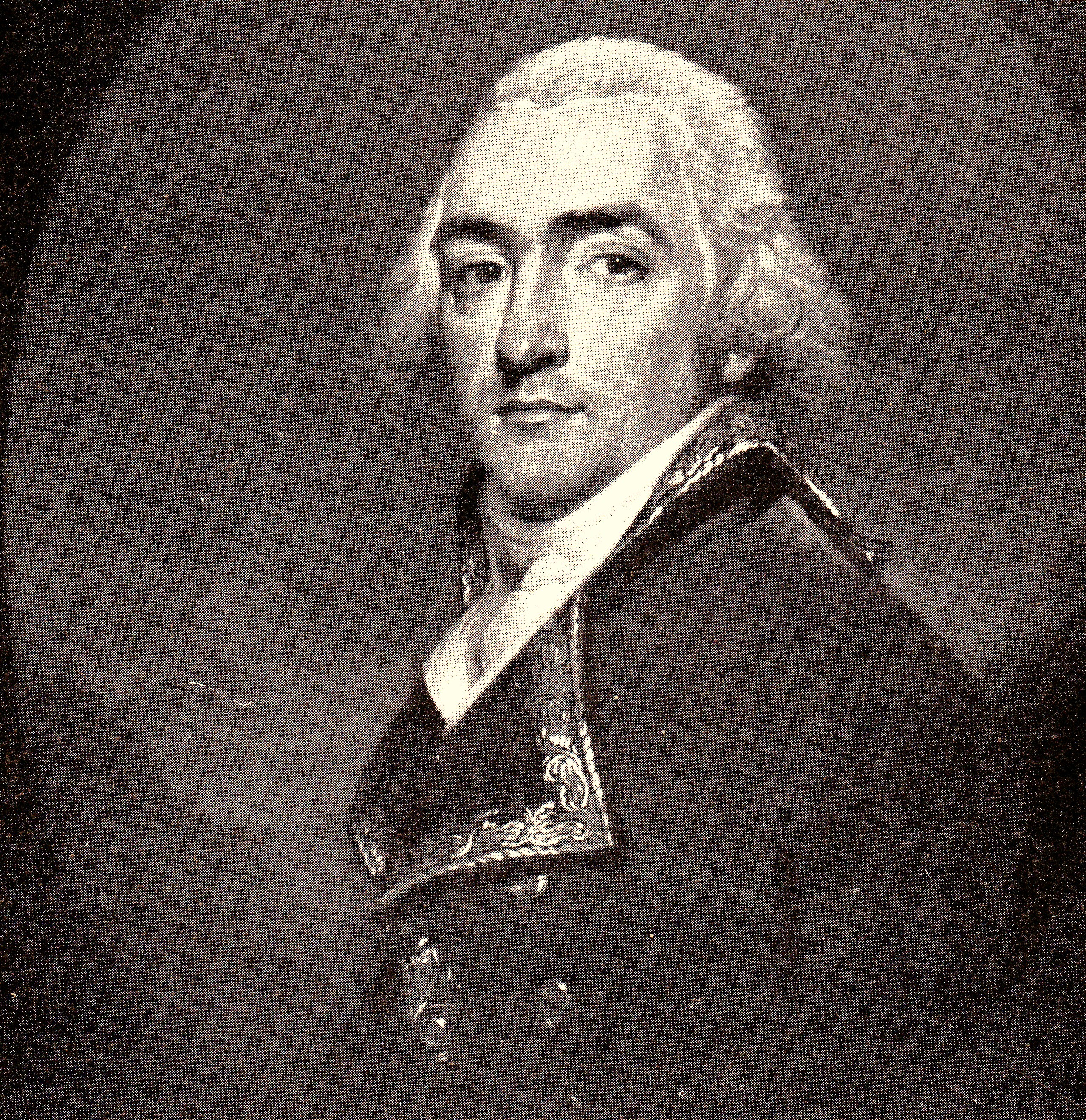 Herman Willem Daendels